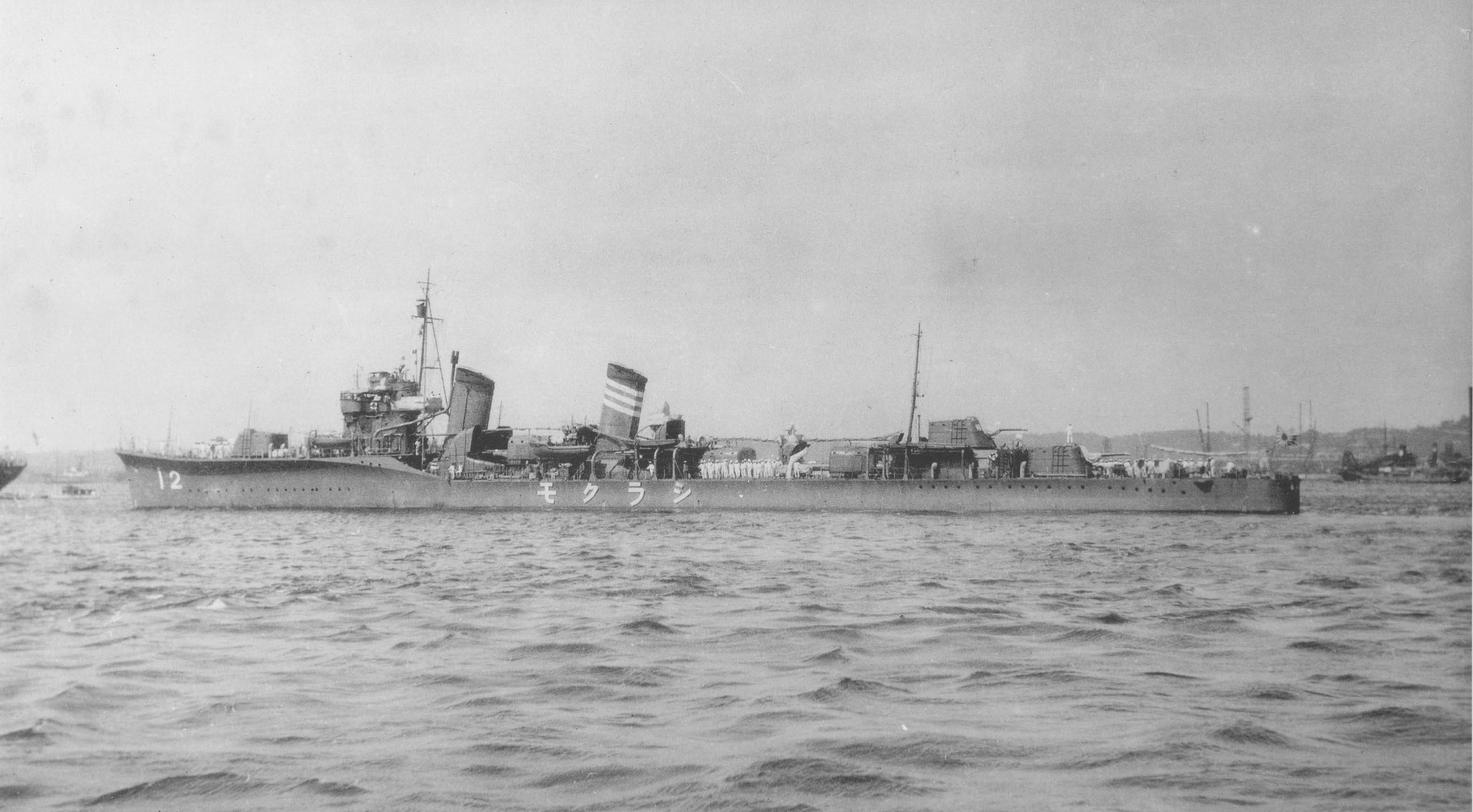 Imperial Japanese Navy destroyer Shirakumo, the second Japanese warship to bear that name.